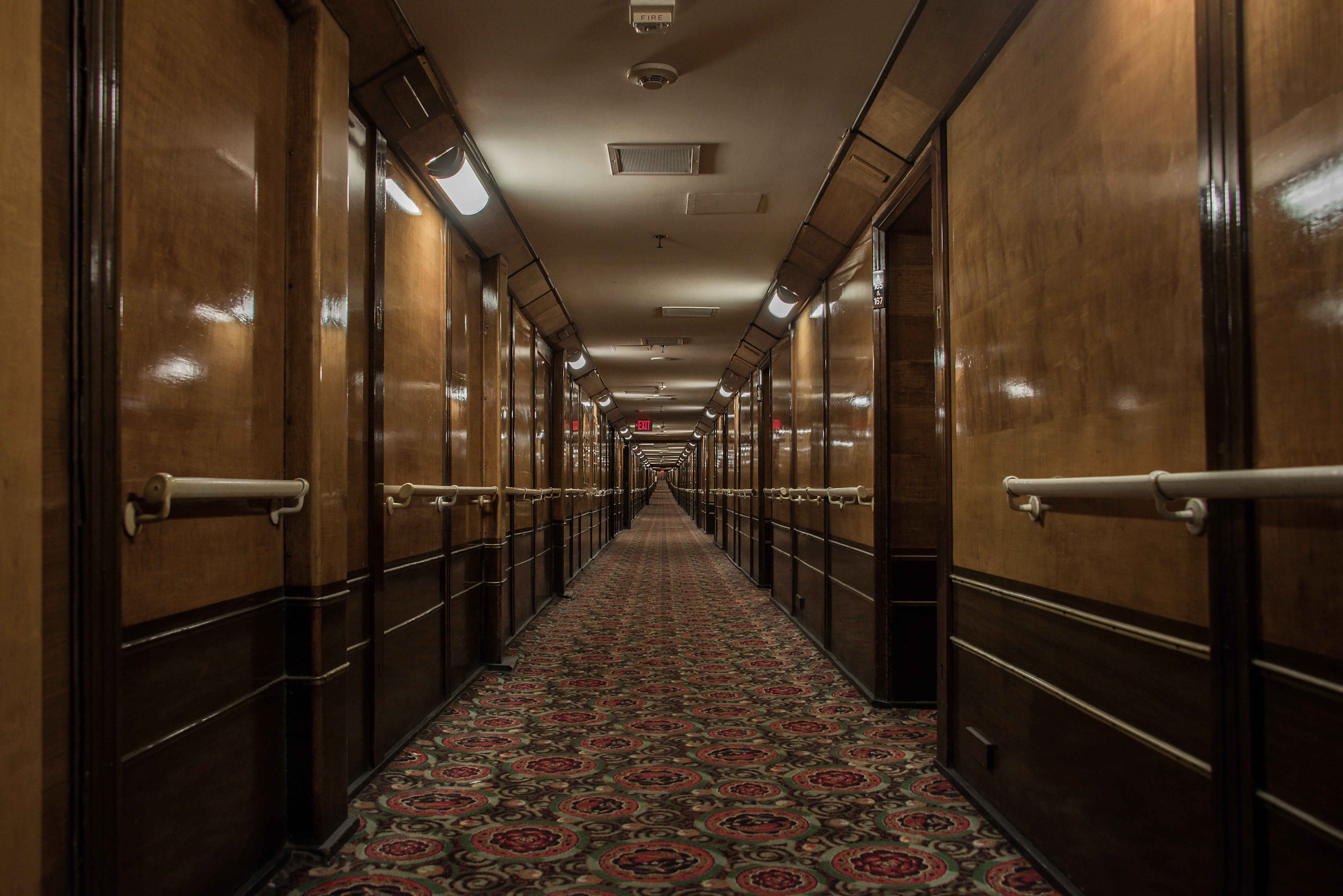 One of the longest hallways inside the RMS Queen Mary, a retired British ocean liner that sailed primarily on the North Atlantic Ocean from 1936 to 1967 for the Cunard Line – known as Cunard-White Star Line when the vessel entered service. She was the flagship of the Cunard and White Star Lines. (Wikipedia)